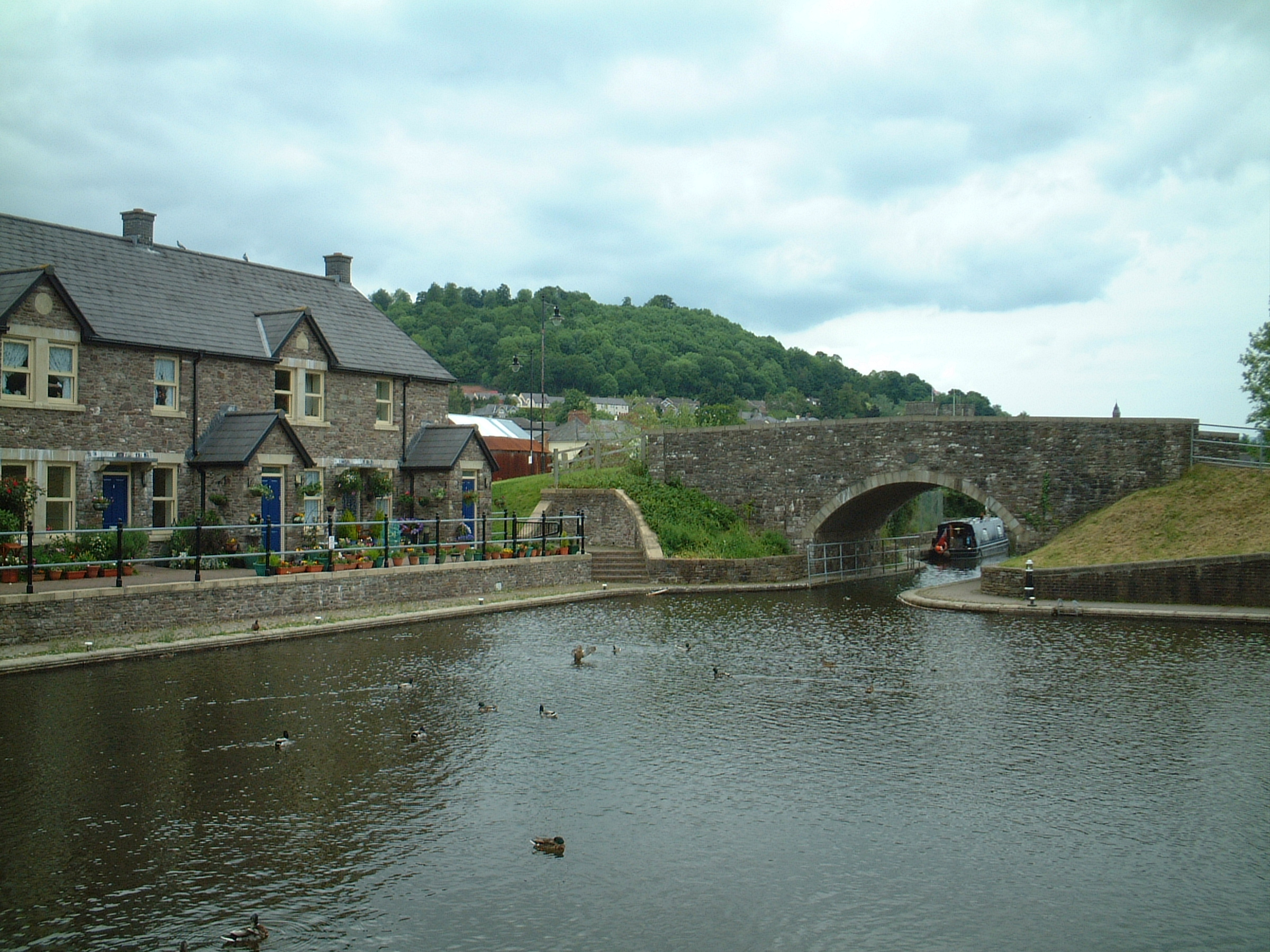 Brecon part of the Monmouthshire & Brecon Canal